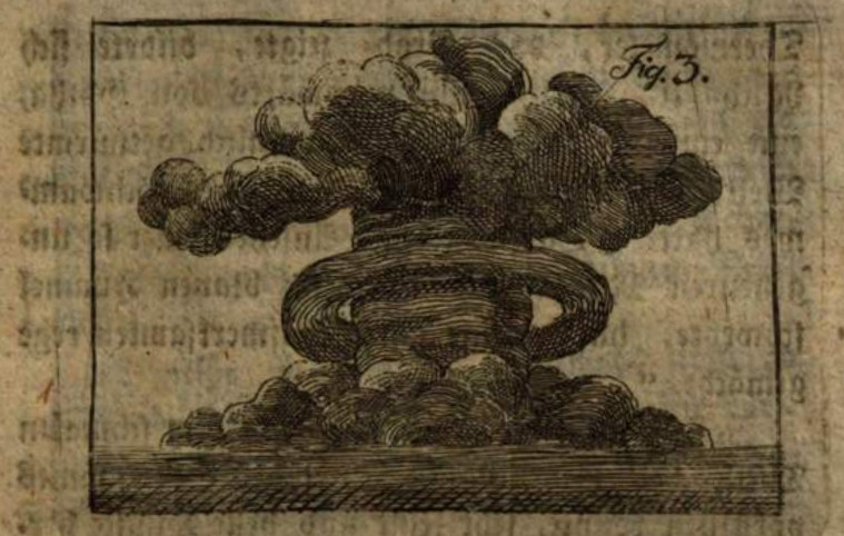 Mushroom cloud from Gerhard Vieth's Physikalischer Kinderfreund (1798) as witnessed by Lichtenberg a few years earlier.